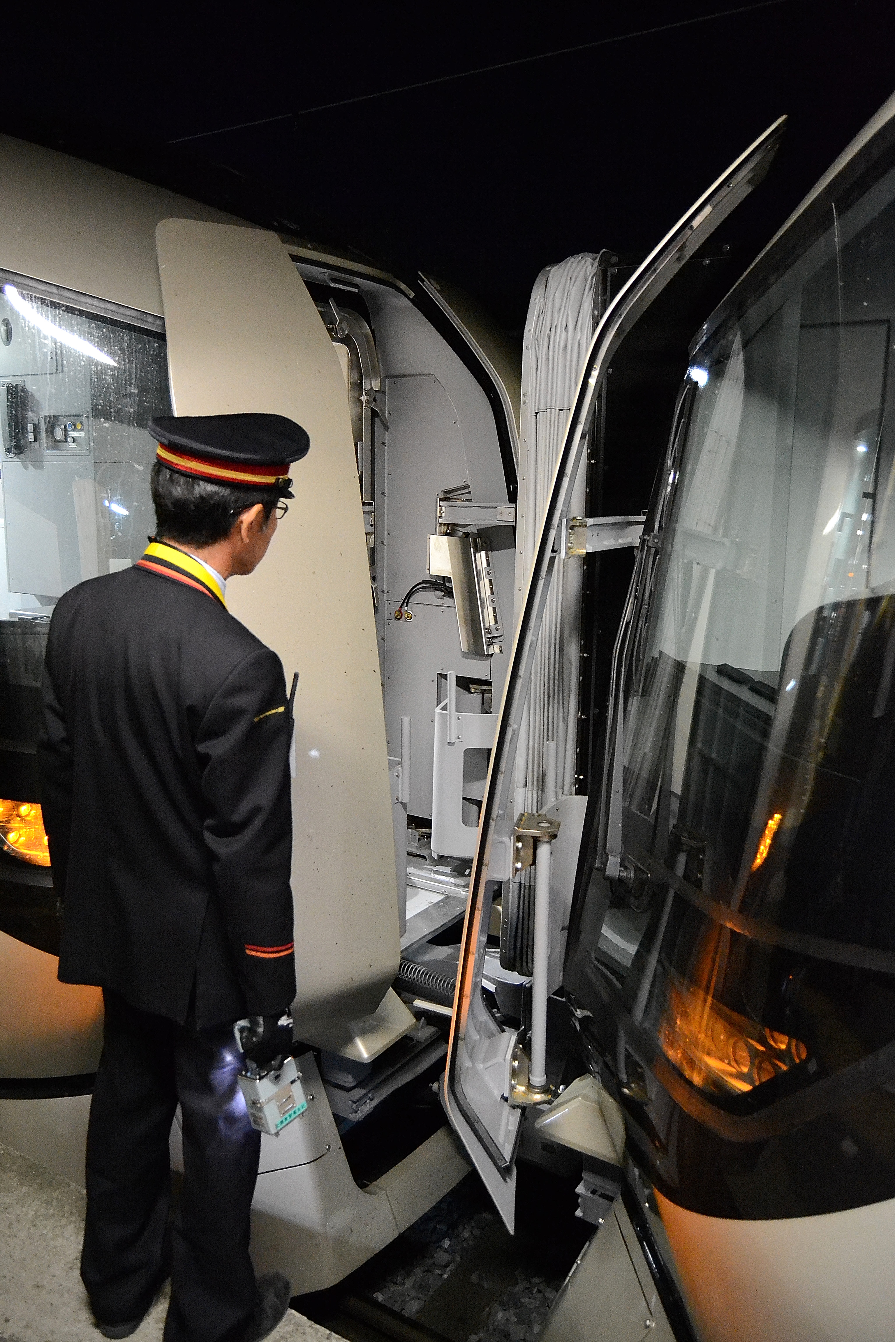 Two Tobu 500 series EMU sets on Revaty Aizu and Revaty Kegon services being coupled at Shimo-Imaichi Station